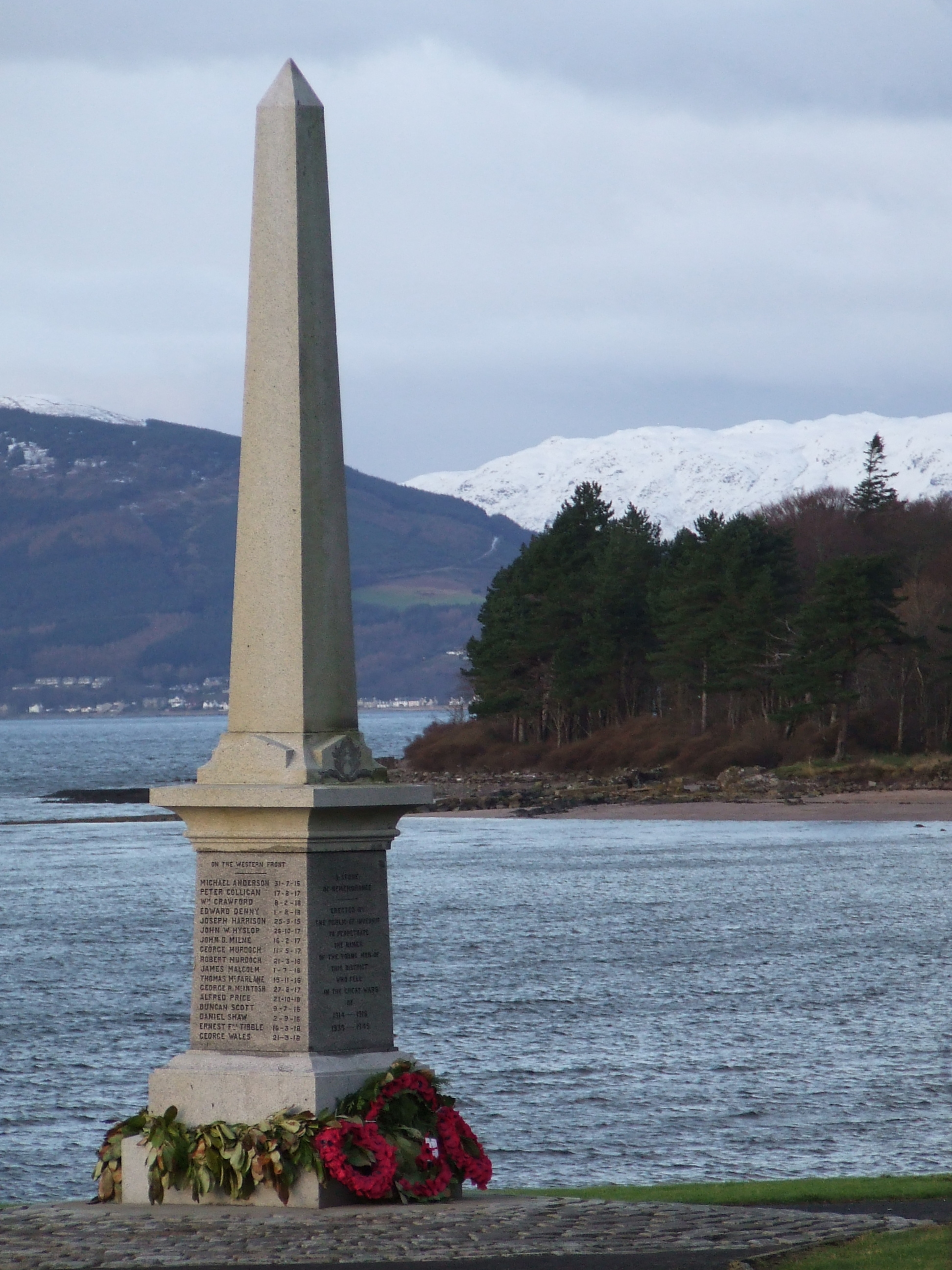 Inverkip War Memorial. With Ardgowan Point in the background. This photo is dedicated to the memory of the late William Craig who passed away in October 2008 and who submitted the First Geograph for this square 32492.